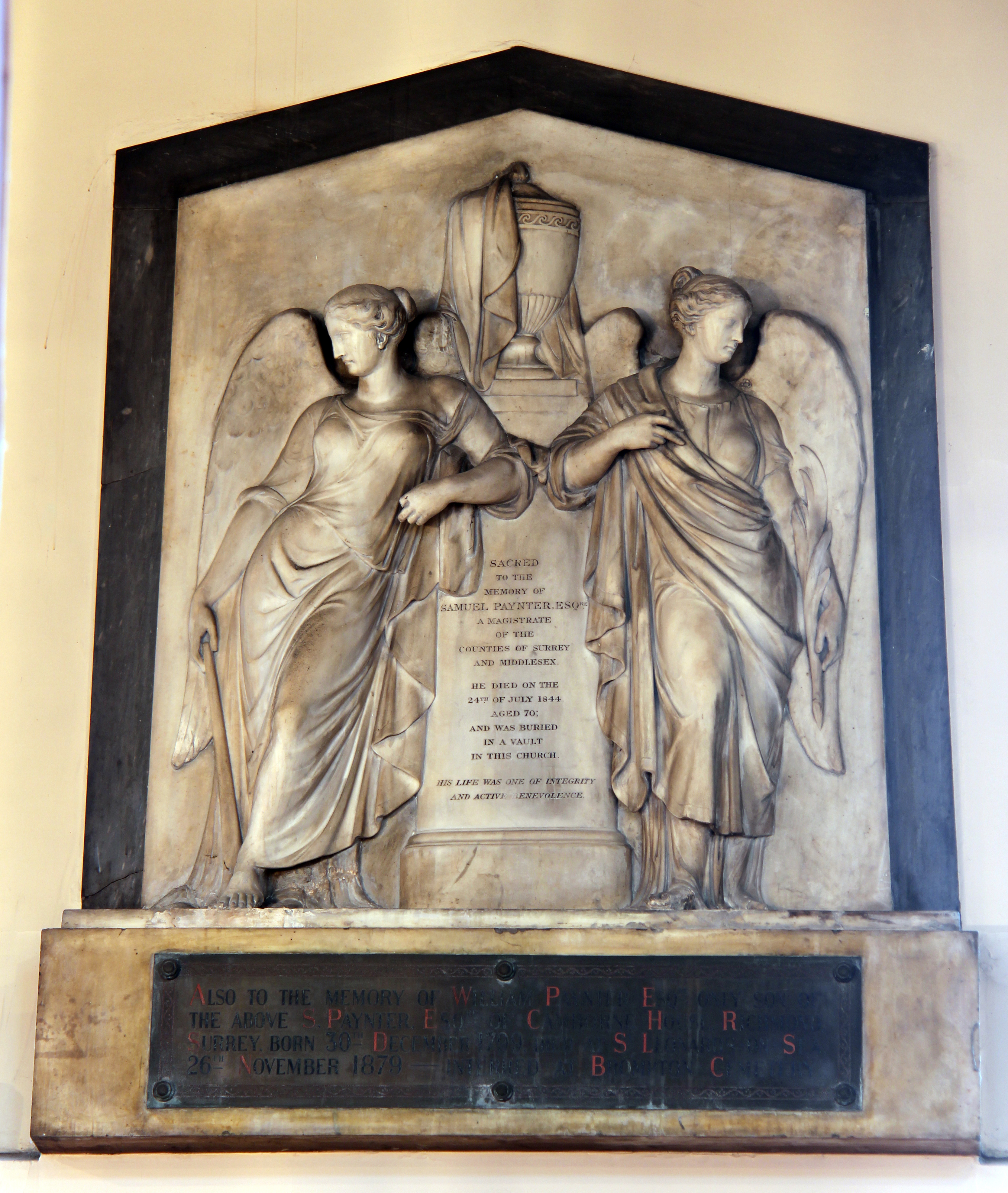 Memorial located at St Mary Magdalene church, Richmond upon Thames